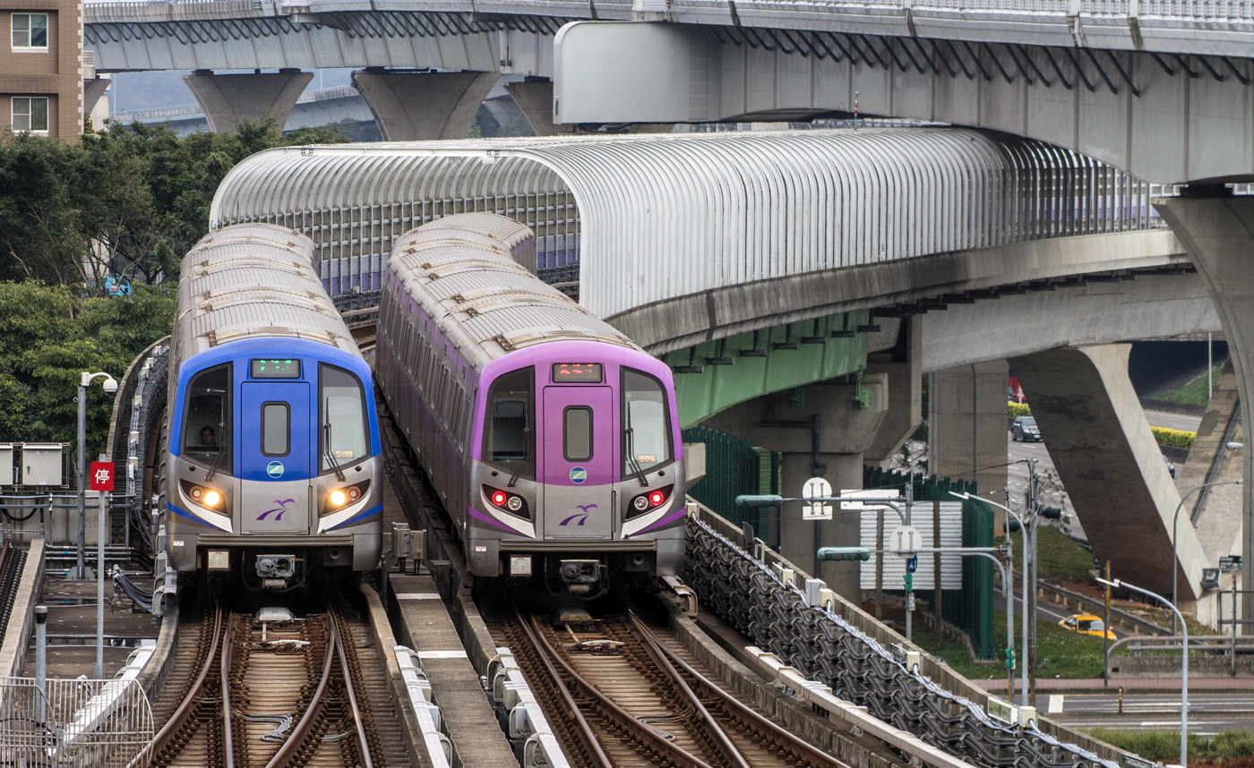 Taoyuan Metro's Commuter (left) and Express (right) motor units at Linkou station.